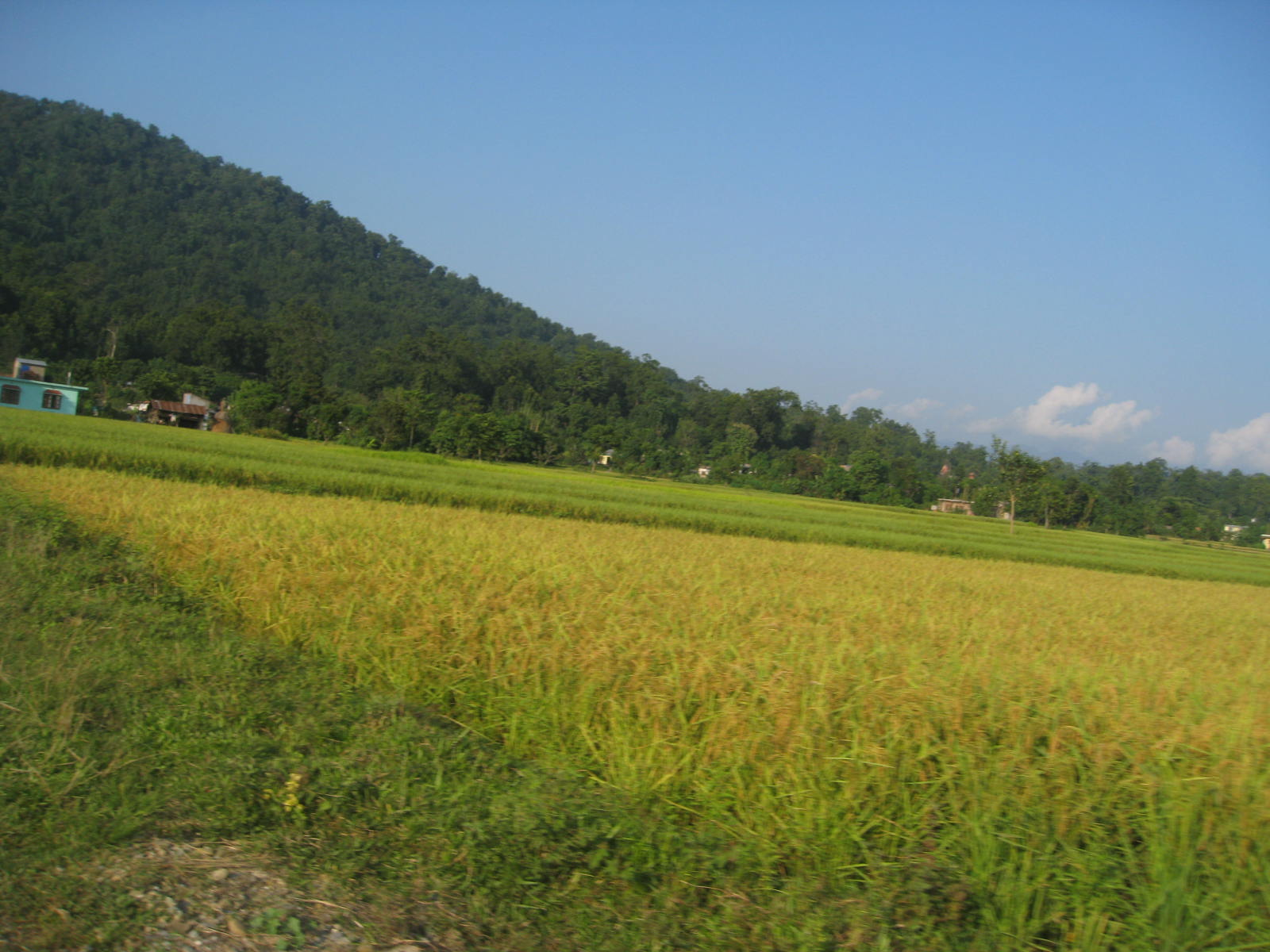 Rice field in Gaindakot, October 2011